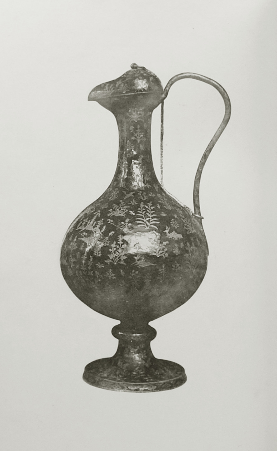 LACQUERED EWER (NORTH43) 41.3cm high, 18.9cm wide, 760g weight. Documenred in ACE756